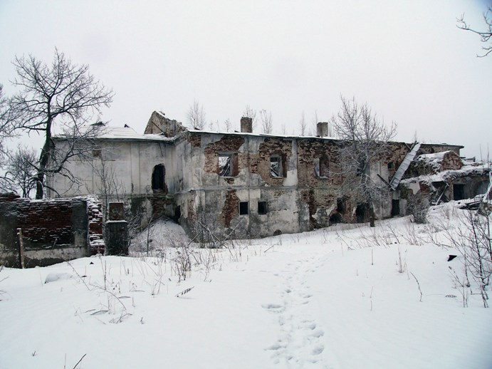 Kornilievo-Komelsky Monastery (Корнилиево-Комельский монастырь) near Gryzovets, Vologodskaya Oblast